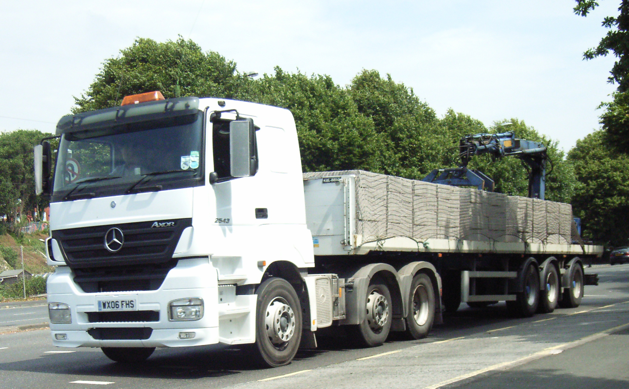 Axor in Embankment Plymouth 25 june 2009.